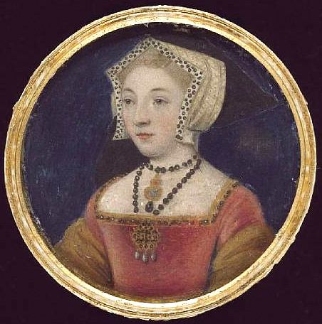 17th century miniature of Jane Seymour by painter and engraver Wencelaus Hollar.